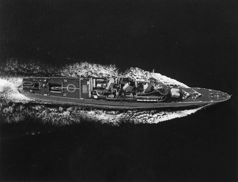 Aerial view of Leander-class frigate HMS Penelope (F127), 18 May 1970 (IWM HU 129947)